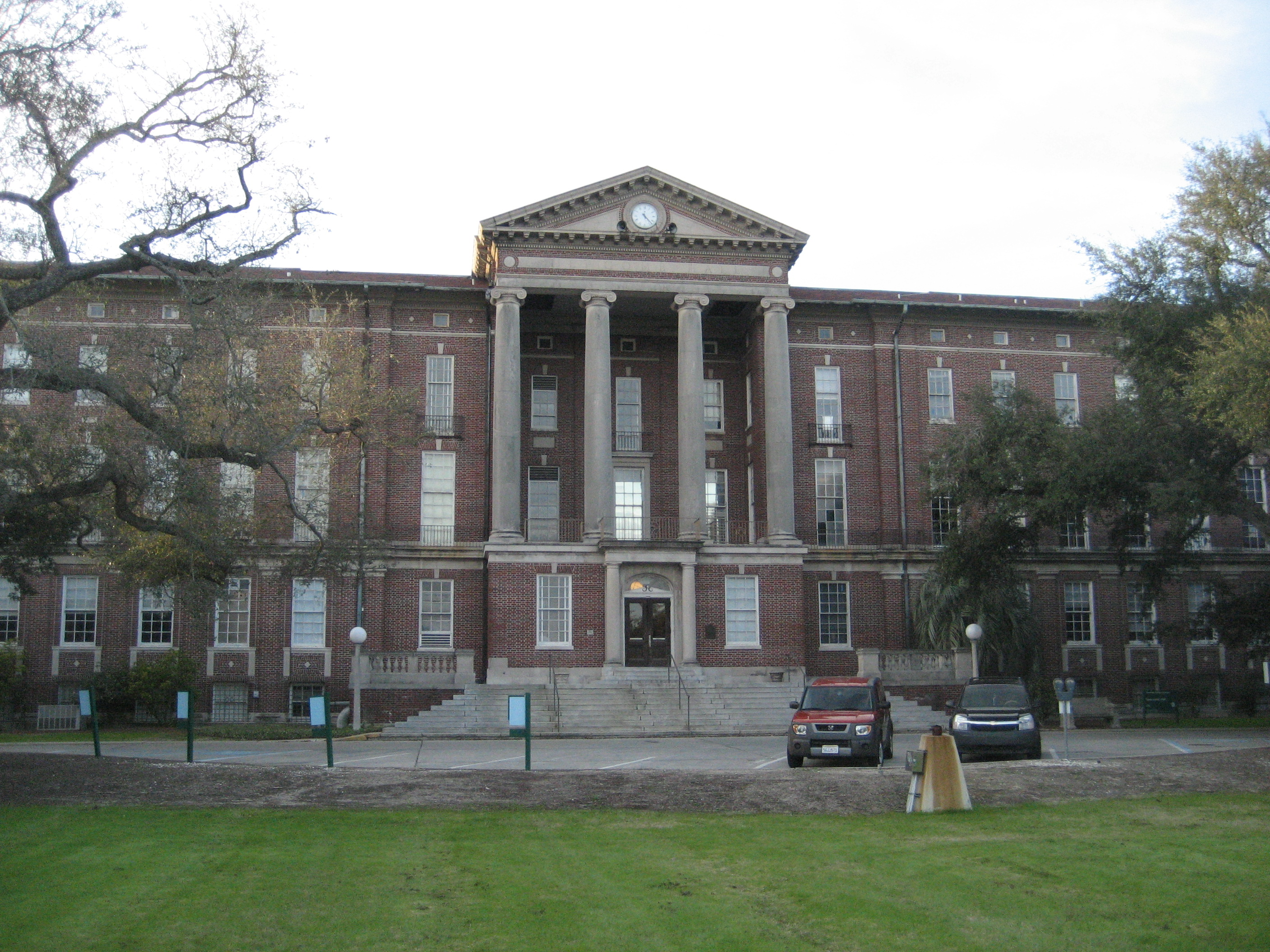 Newcomb Hall, Tulane University, New Orleans